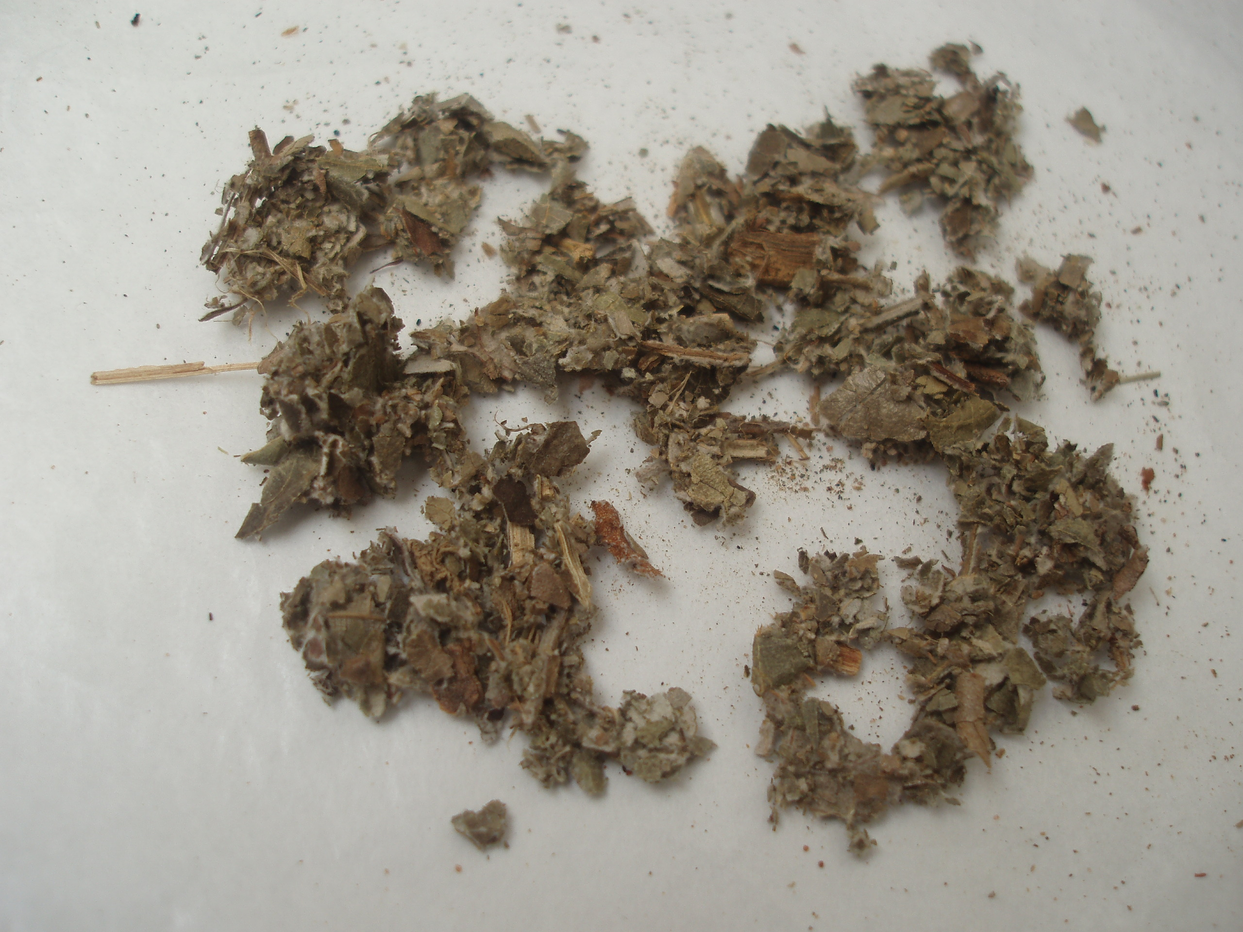 Cecropia adenopus (Amba'y), Paraguayan herbs